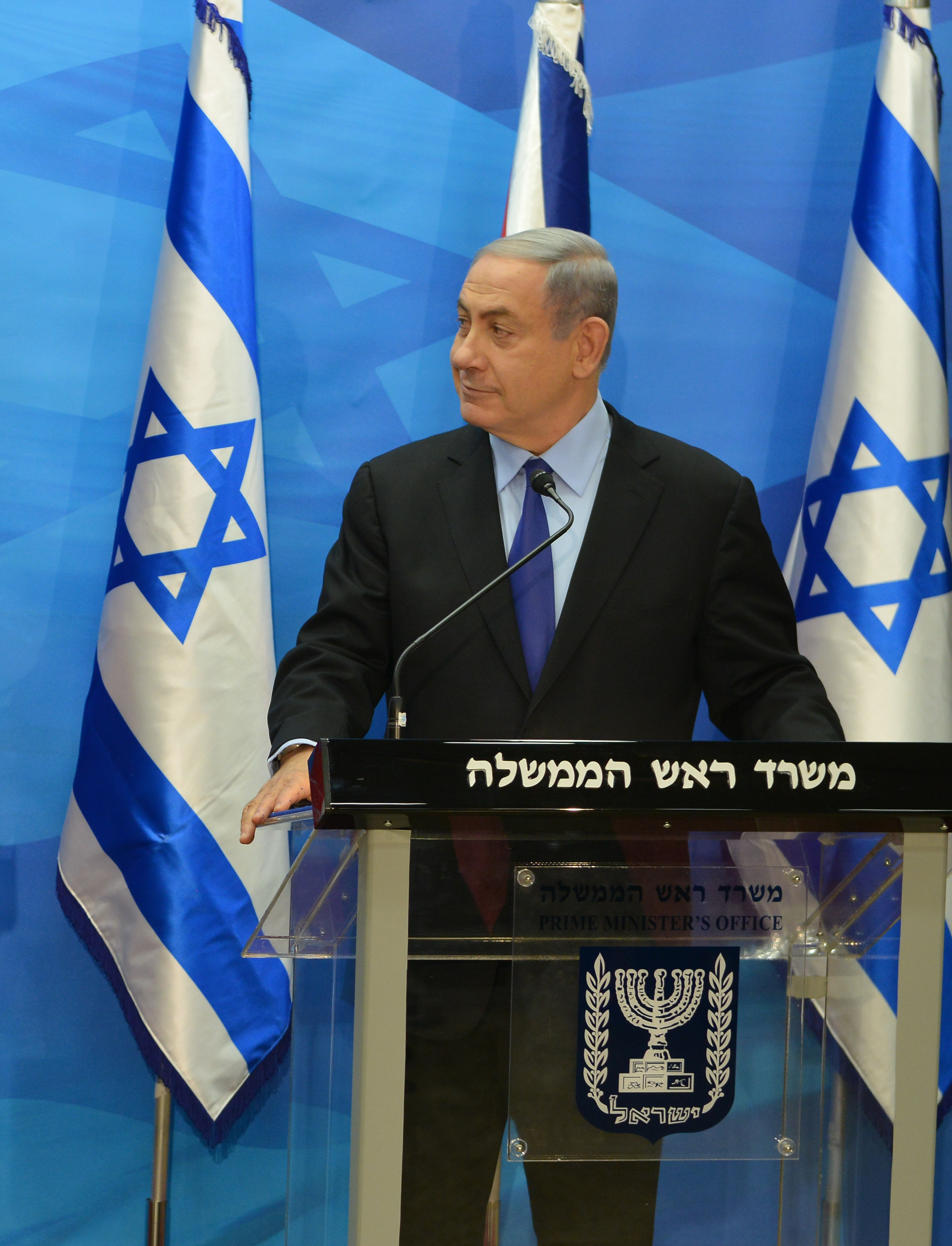 Israeli Prime Minister Benjamin Netanyahu.